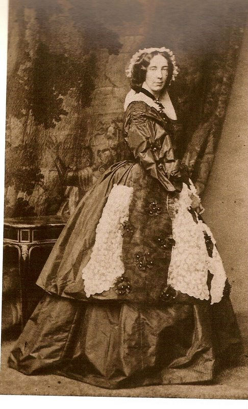 Empress Amelia of Beauharnais (1812-1873), second wife of the Emperor Pedro I of Brazil.